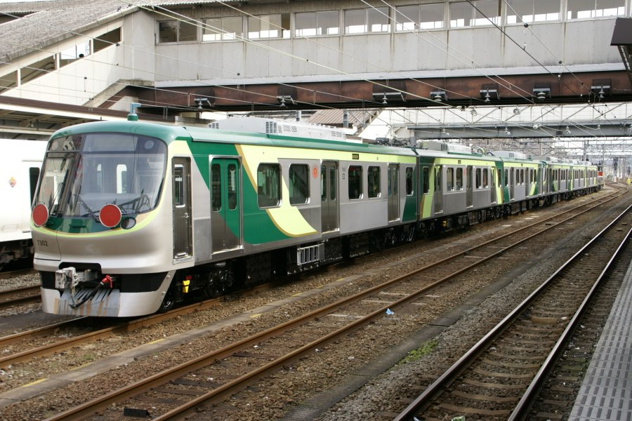 Tokyu 7000 series sets 7101 and 7102 at Hachioji station on delivery to Tokyu